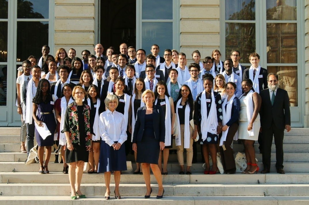 AEFE Scholarship of Excellence Ceremony - French National Assembly - 2015